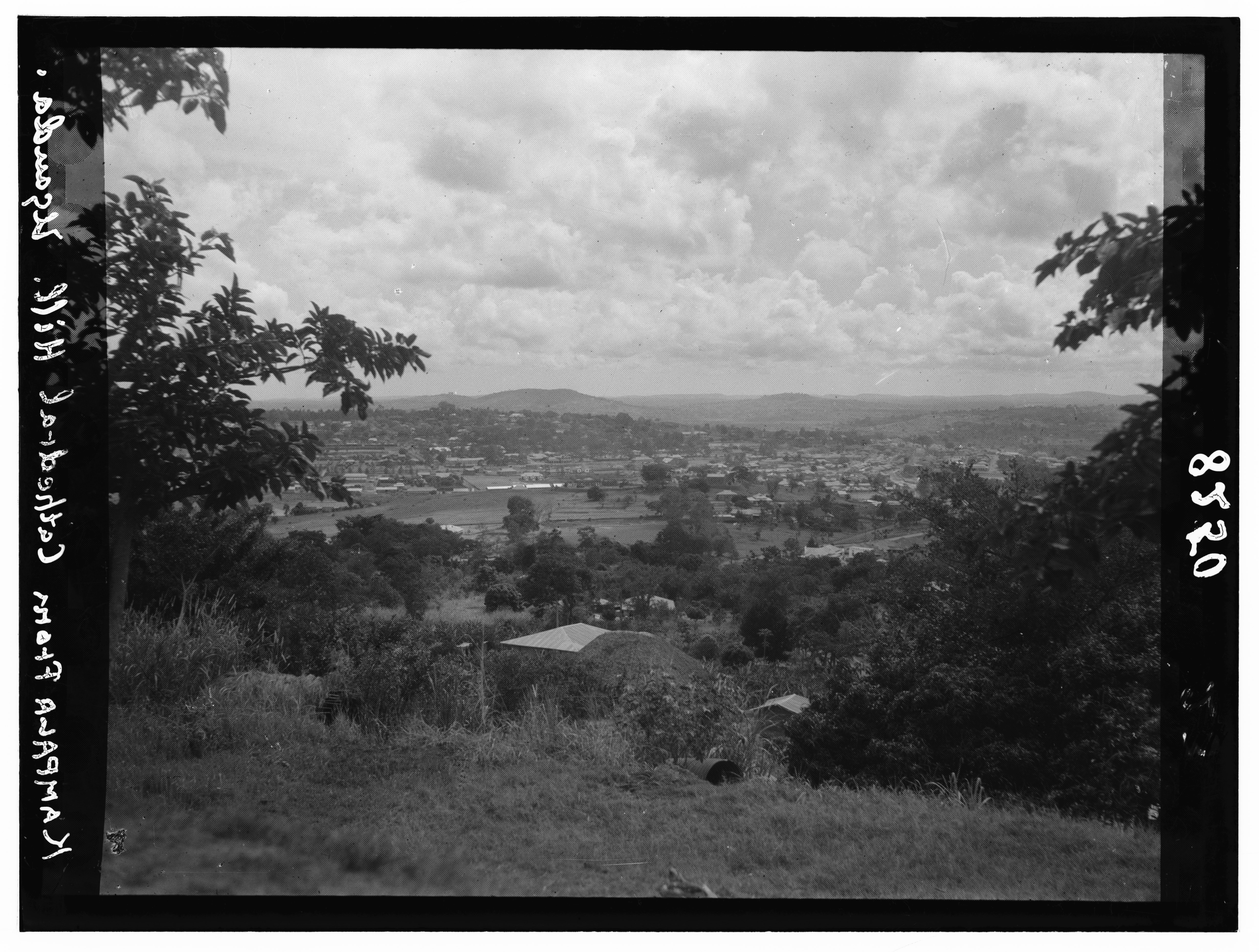 Title: Uganda. Kampala. The city from Cathedral Hill Abstract/medium: G. Eric and Edith Matson Photograph Collection Physical description: 1 negative